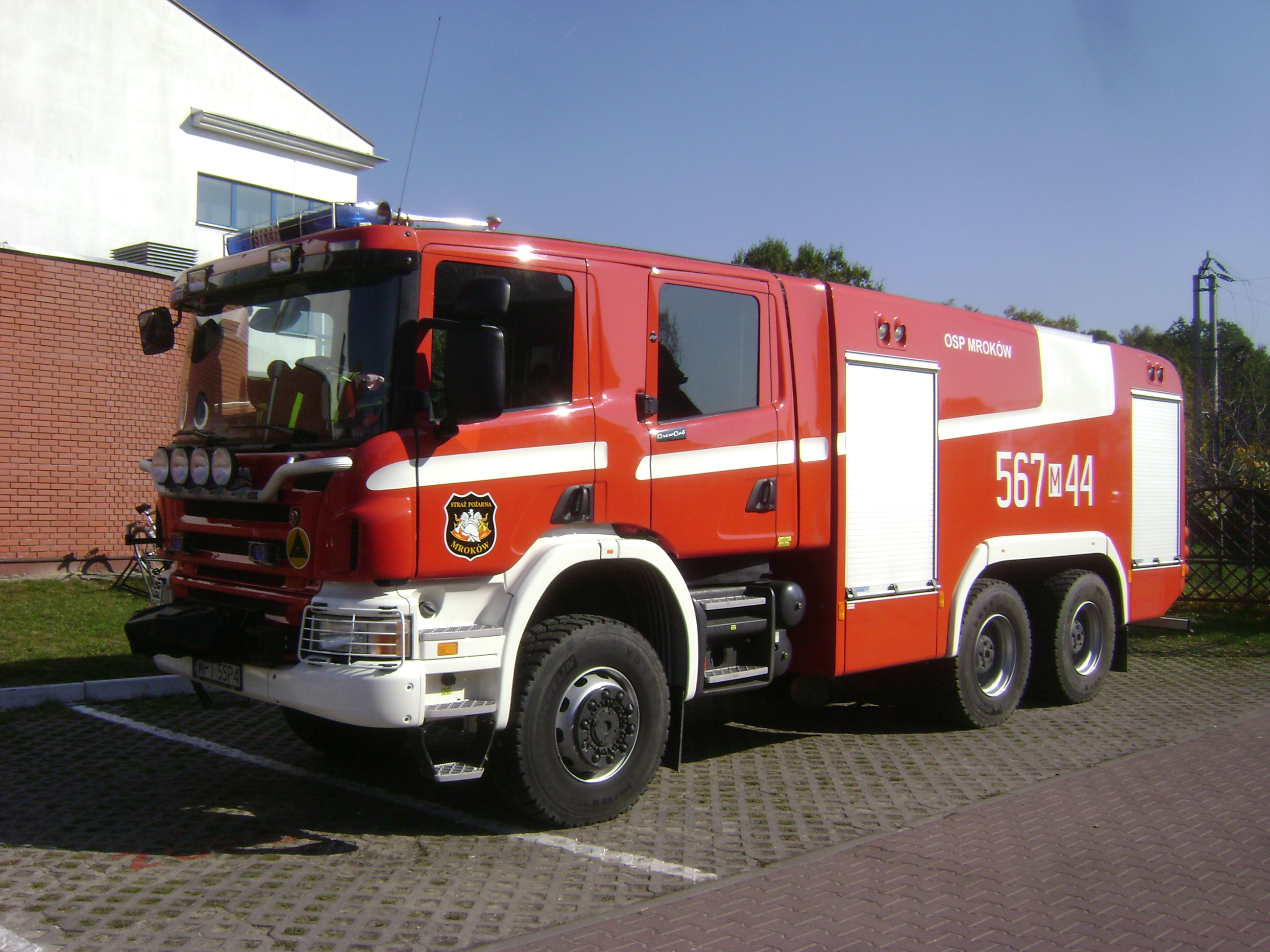 Car, Scania